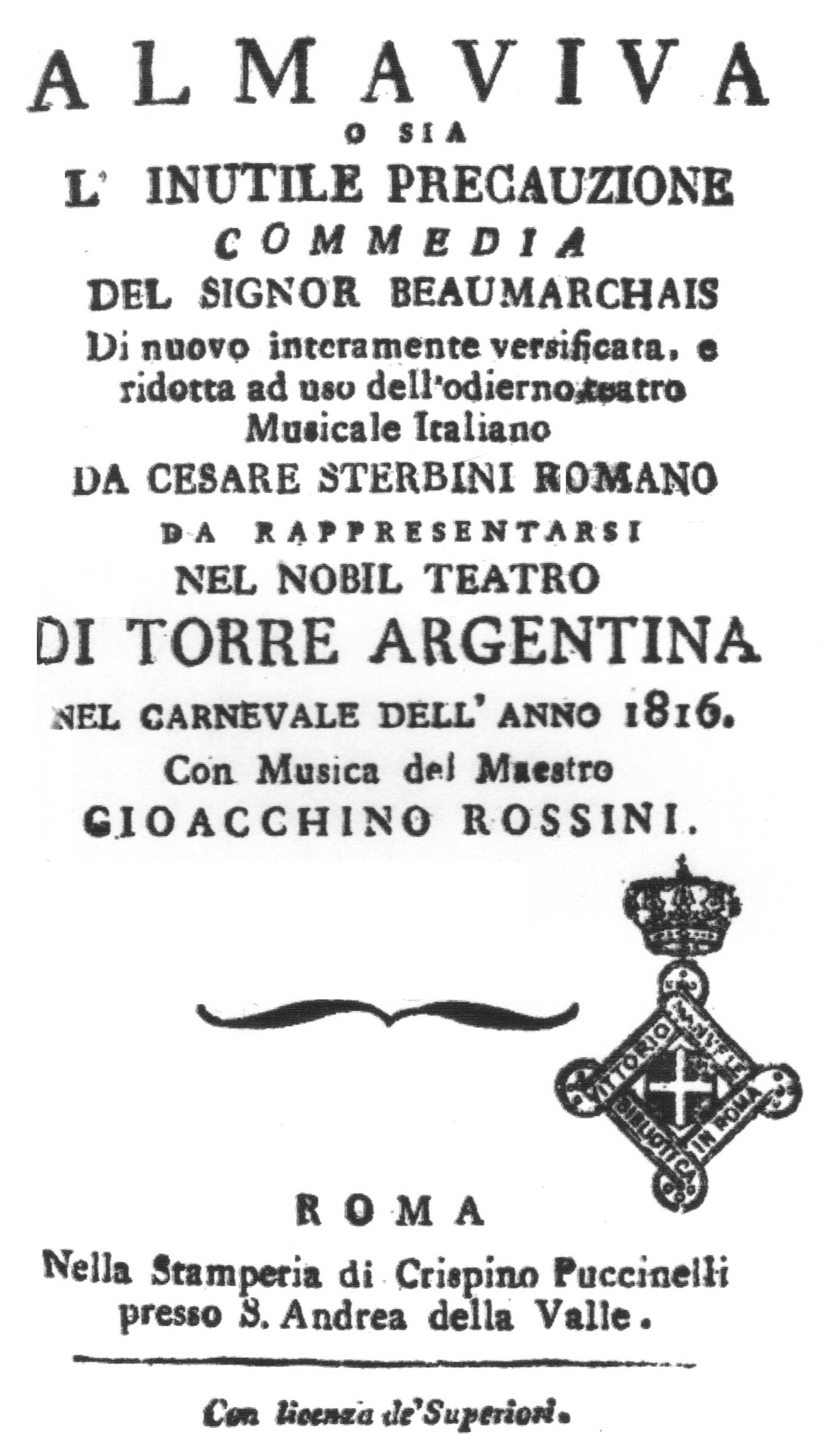 Title page of the original libretto of The Barber of Seville by Gioachino Rossini